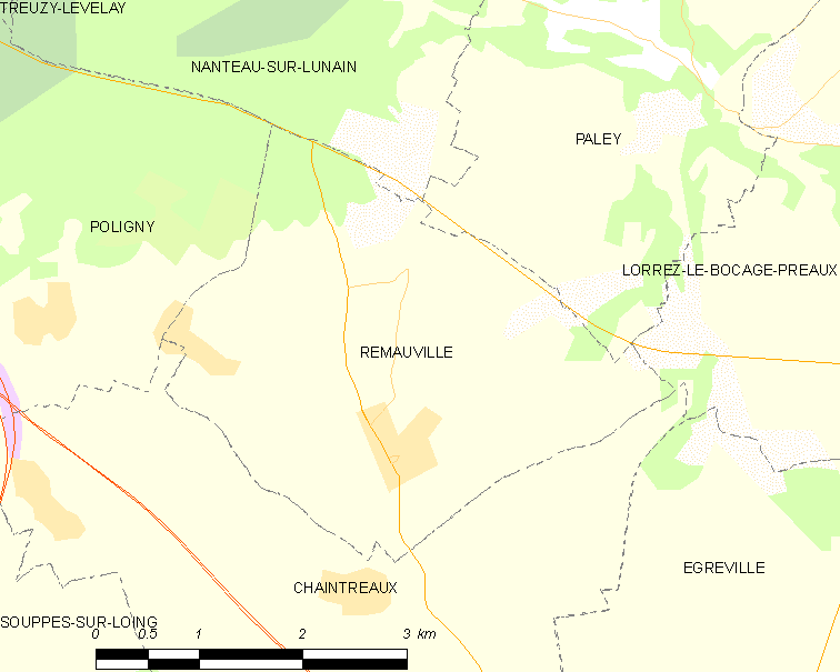 Map of French municipality Remauville